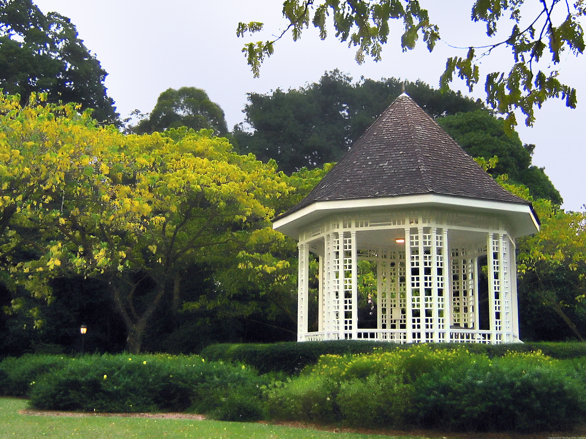 The Bandstand, a historic gazebo in the Singapore Botanic Gardens.